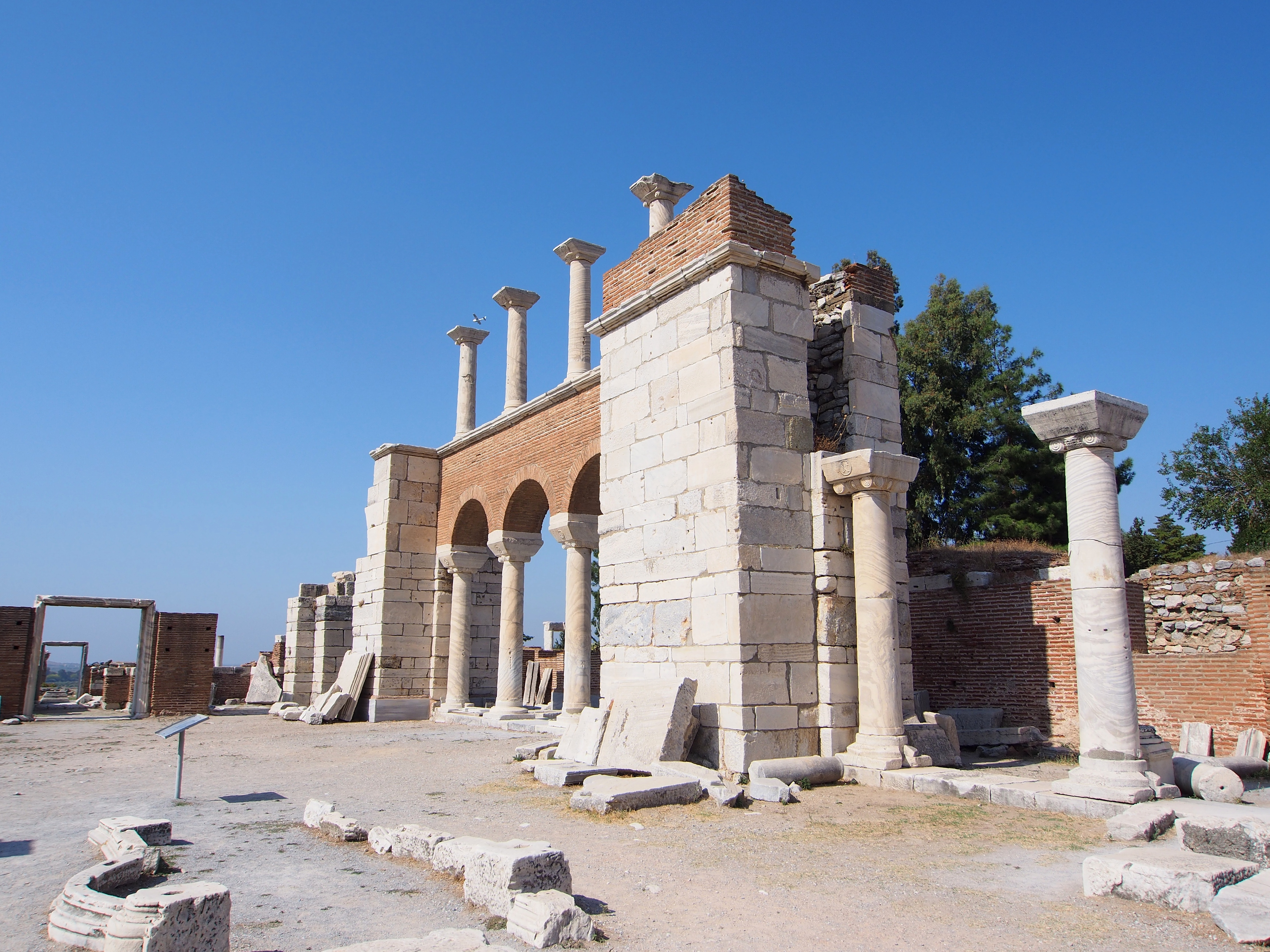 Basilica of St. John - 2014.10